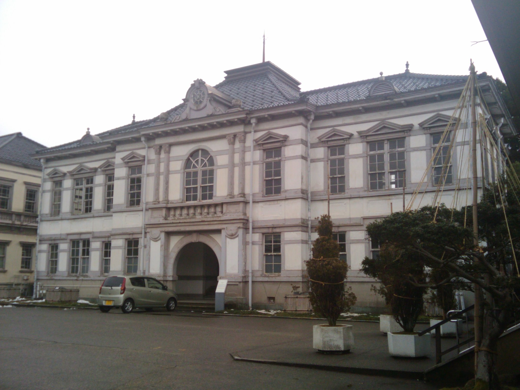 Ishikawa prefectural office Ishibiki bunshitsu in Kanazawa, Ishikawa, Japan